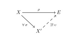 Envelope (category theory).